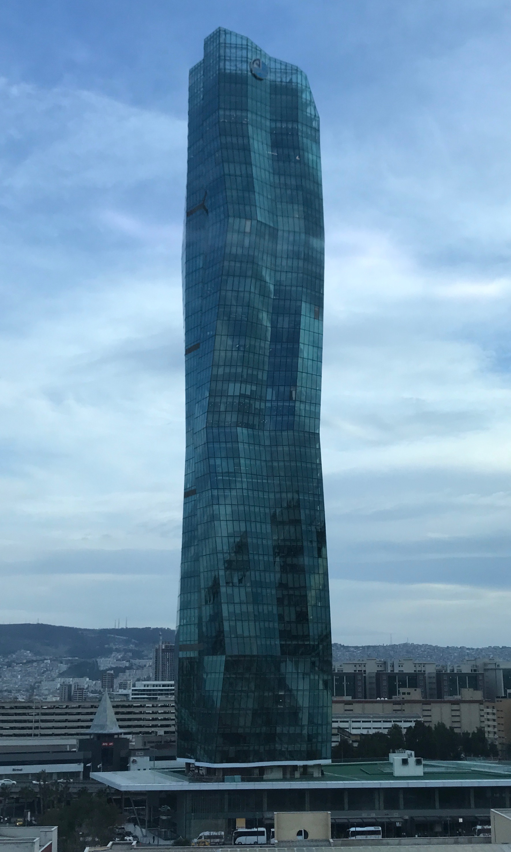 Mistral Office Tower in İzmir, Turkey.